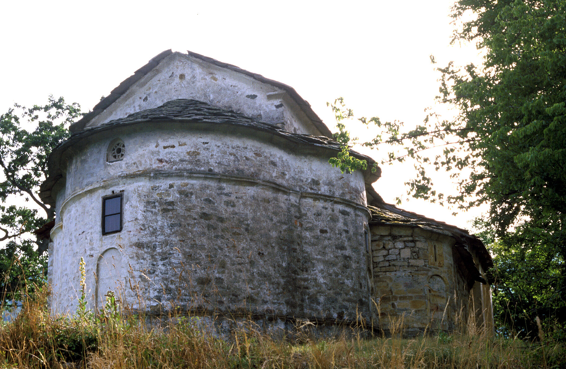 Church of the Holy Virgin in Mrtvica, Vladičin Han